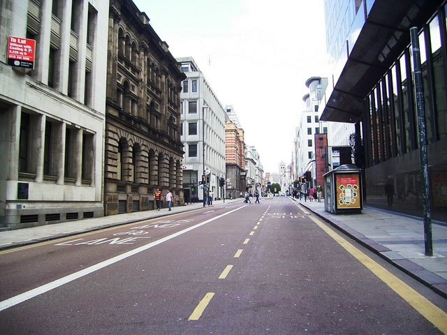 Park Row, Leeds In the 18th century development of the Park Estate this was the main thoroughfare between the Manor House and Park Lane (The Headrow) and lined with Georgian houses until, in the mid 18th century, these were replaced by Banks and Insurance offices and thus became the Commercial centre of Leeds.